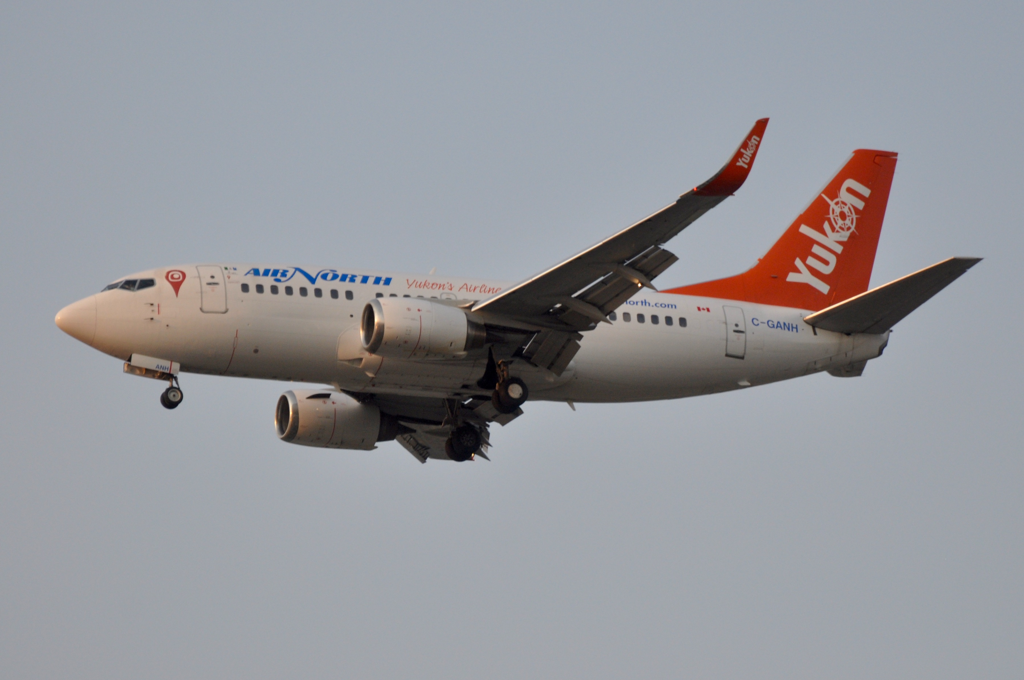 MSN 27153 LN 2515 B737-505 Air North YVR